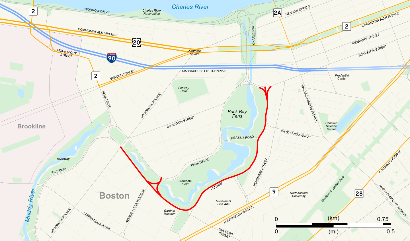 Map showing Fenway, a historic parkway in Boston, Massachusetts, United States highlighting major local streets and highways, with Fenway highlighted in red